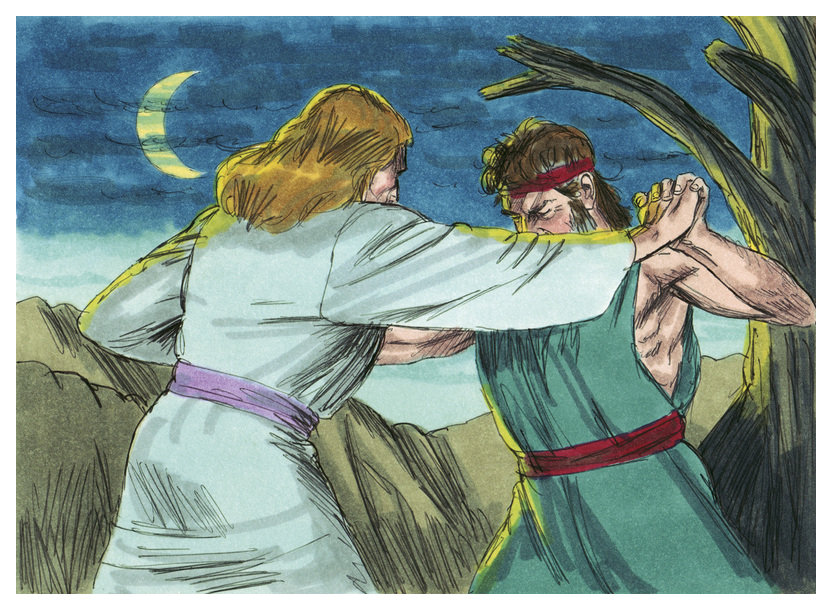 Biblical illustration of Book of Genesis Chapter 32